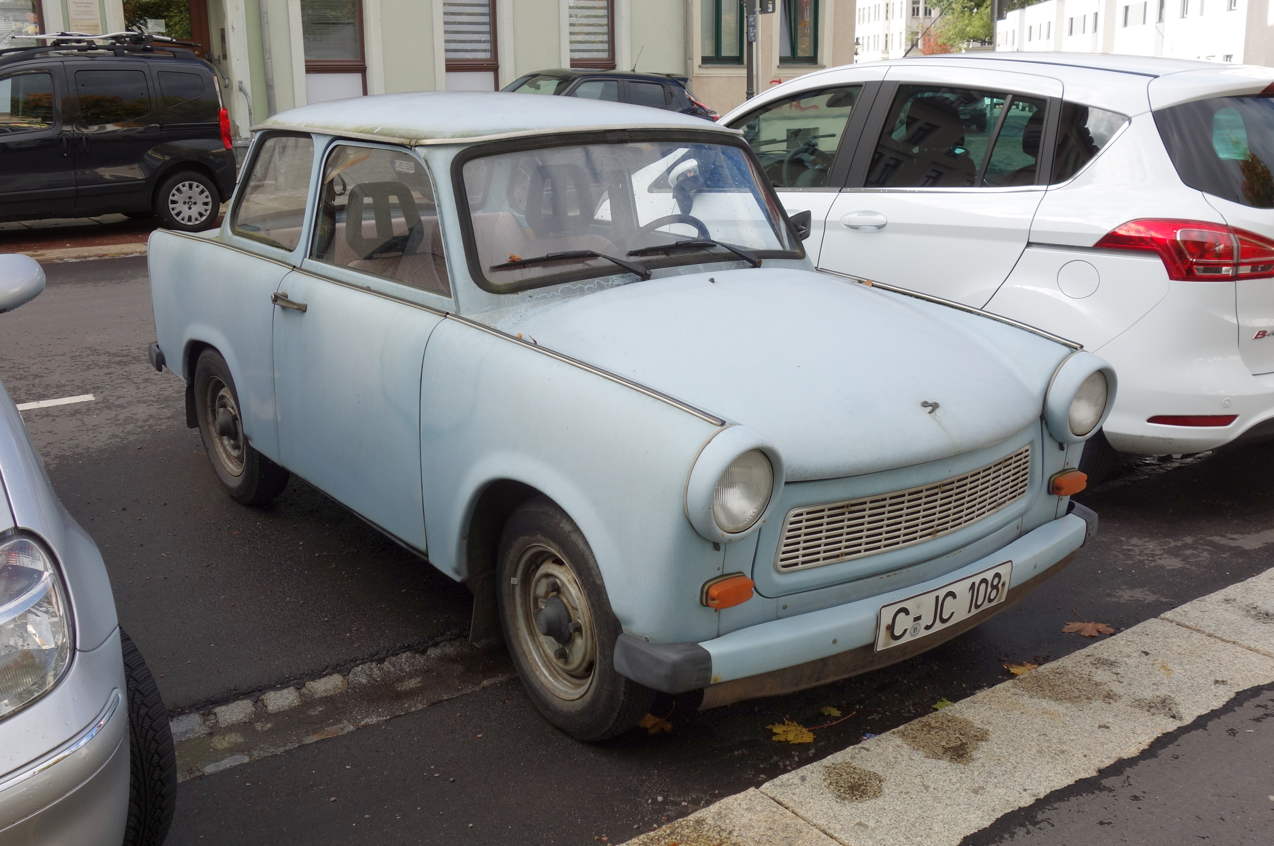 Also in 2017 you can meet the Trabi yet: This faded 601 is still in the normal everyday use and is at home in Chemnitz.